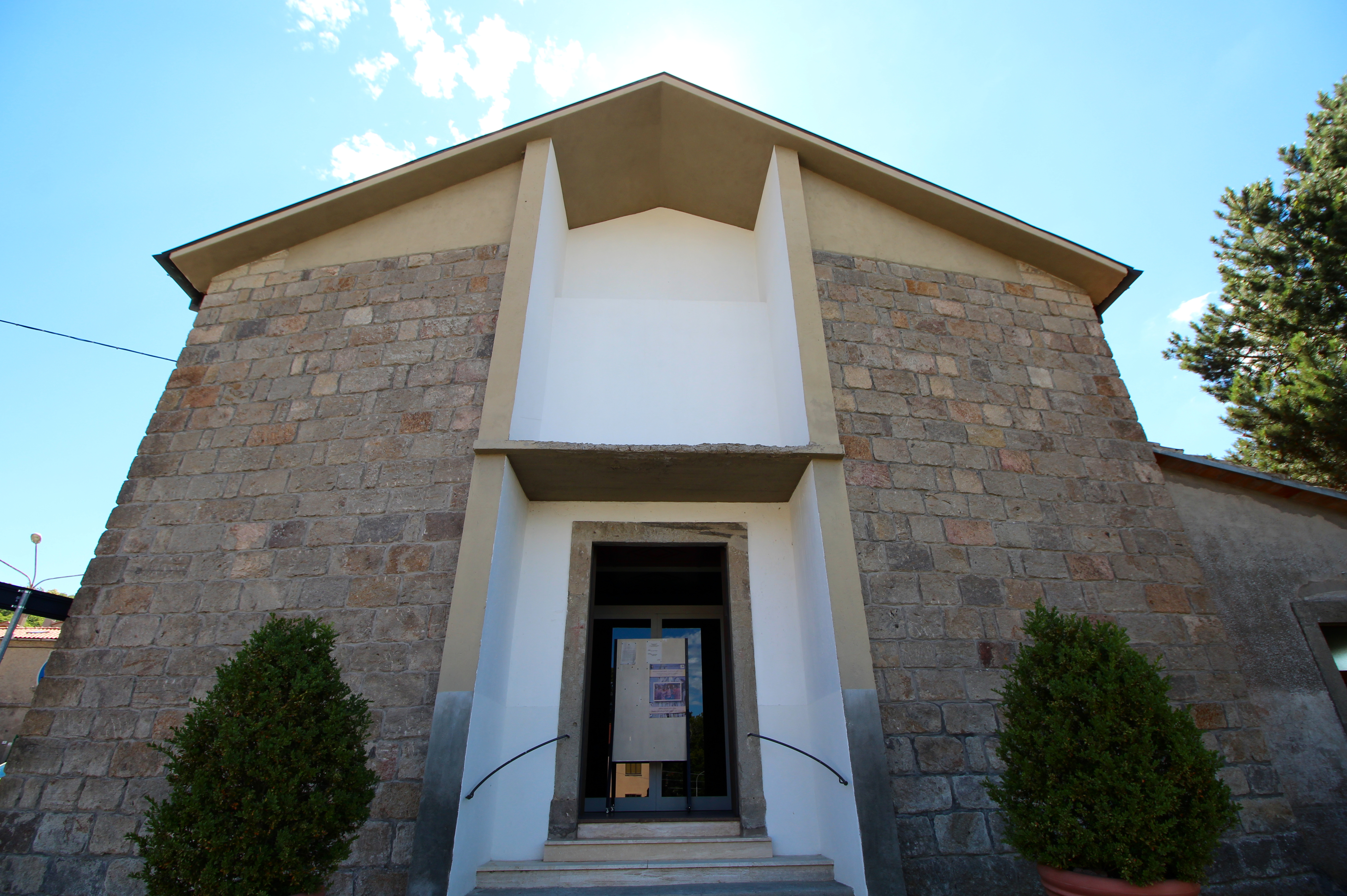 Church Santissimo Nome di Maria, Bagnolo, hamlet of Santa Fiora, Province of Grosseto, Tuscany, Italy